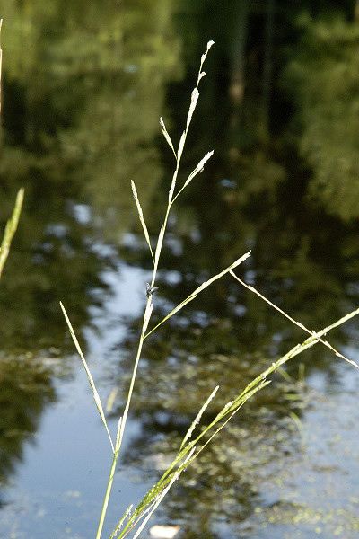 Glyceria fluitans from Commanster, Belgian High Ardennes .